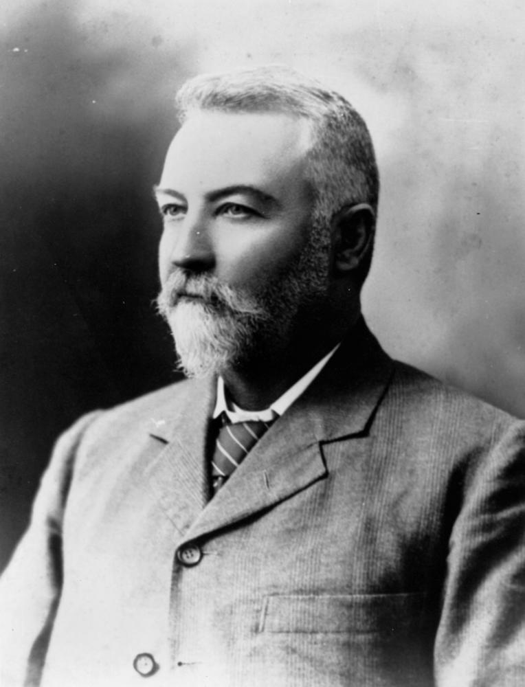 Gilbert Gostwyck Cory, 1891. Gilbert Gostwyck Cory was elected to the position of Toowoomba Mayor in 1891. Born in the Paterson district of New South Wales in 1839, he came to Toowoomba in 1858 and took up service at the Cecil Plains station of James Taylor, a successful pastoralist and landowner who was Mayor of Toowoomba in 1890. Cory married a daughter of James Taylor. After successfully managing the station for a number of years, Gilbert Cory moved to Toowoomba where he took an active part in civic affairs. Vacy homestead, in Russell Street, was built for him during the 1880's.